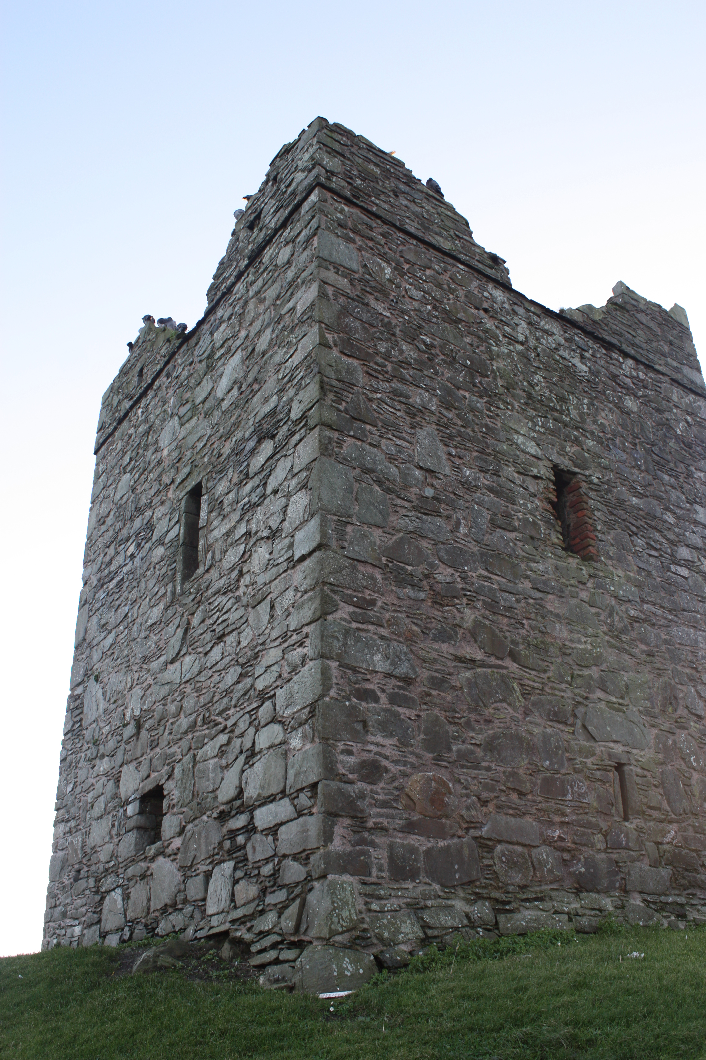 Cowd Castle, Castle Place, Ardglass, County Down, Northern Ireland, November 2010